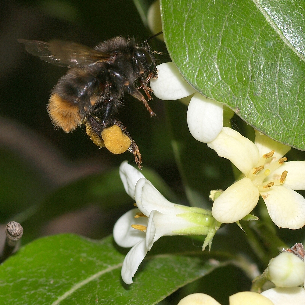 'コマルハナバチ Bombus ardens コマルハナバチはマルハナバチの一種 A kind of Bumblebee Location 神戸市中央区 東遊園地 Copyright OpenCage